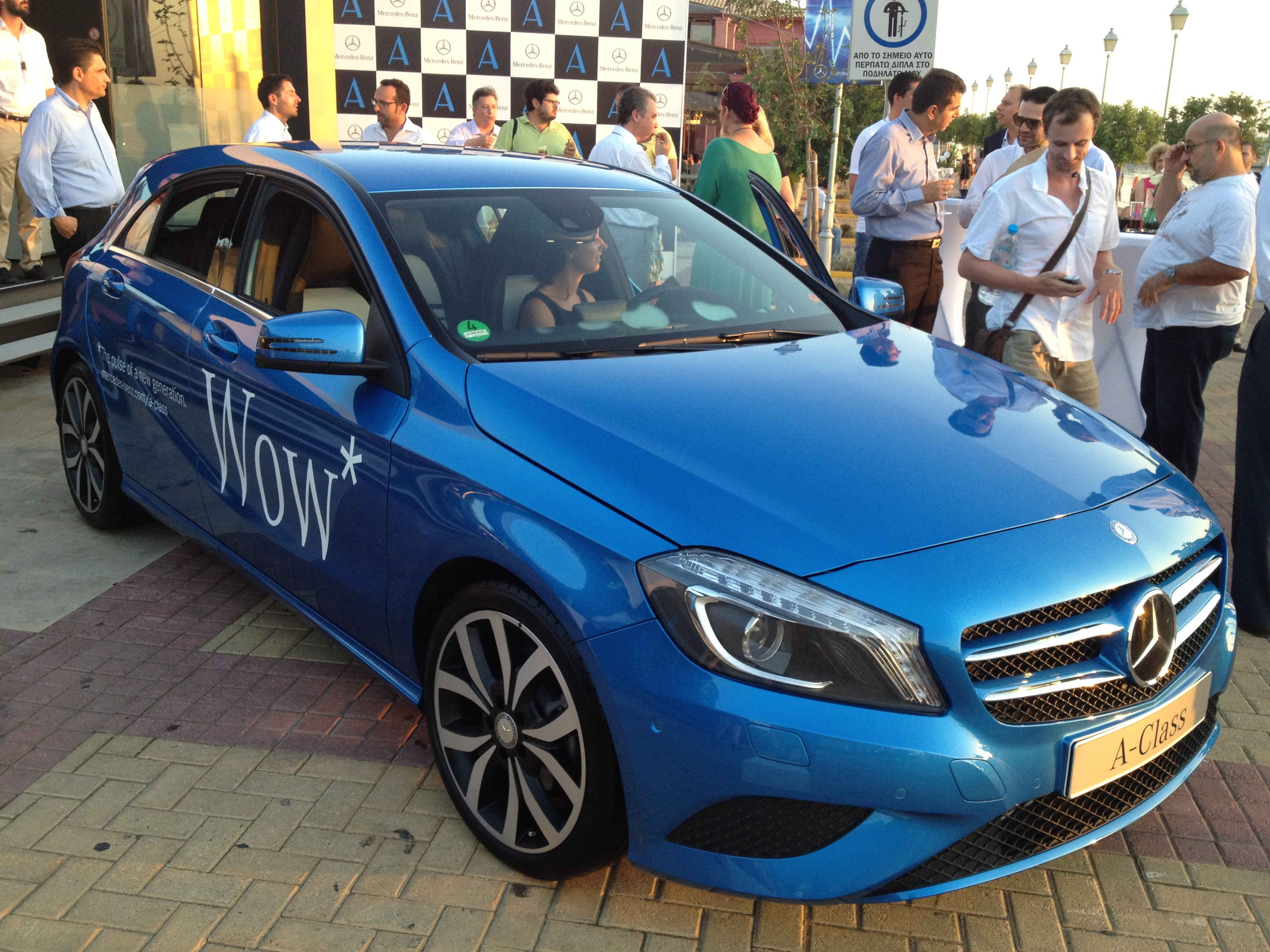 Mercedes A-Class 2012.